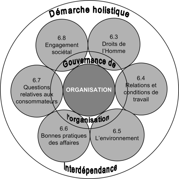 Central questions concerning ISO 26000